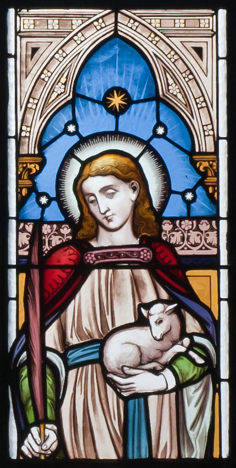 Detail of the right light of the seventh stained glass window in the south aisle, depicting Saint Agnes.